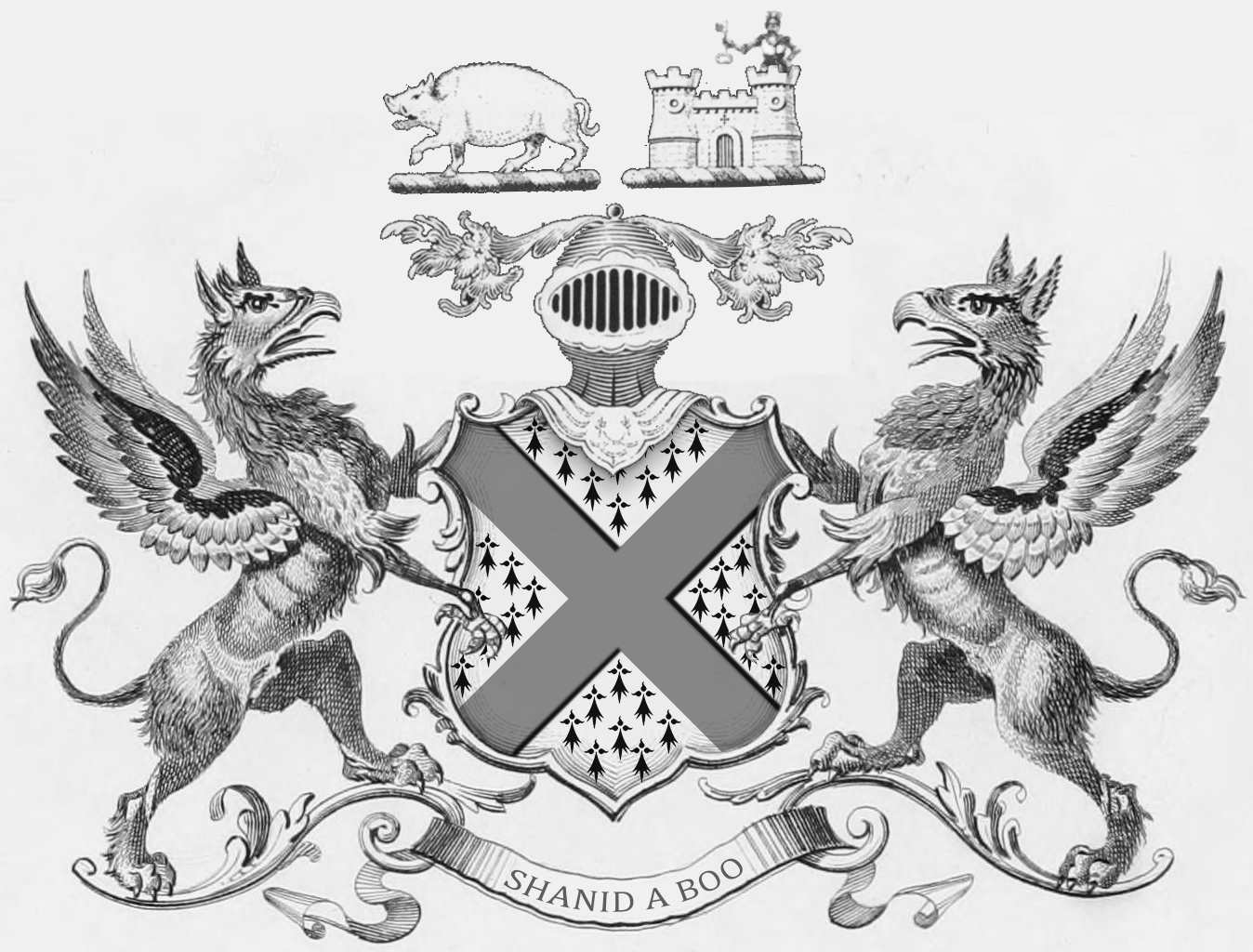 Arms: Ermine, a satire gules Crests: (1) A boar passant gules, bristled and armed or; (2) A castle of two towers argent, issuing from the sinister a knight in armour holding a key proper Supporters: Two griffins rampant argent, collared and chained or Motto: Shanid a boo [1]